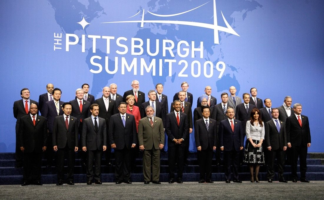 Heads of state and government at the G20 summit